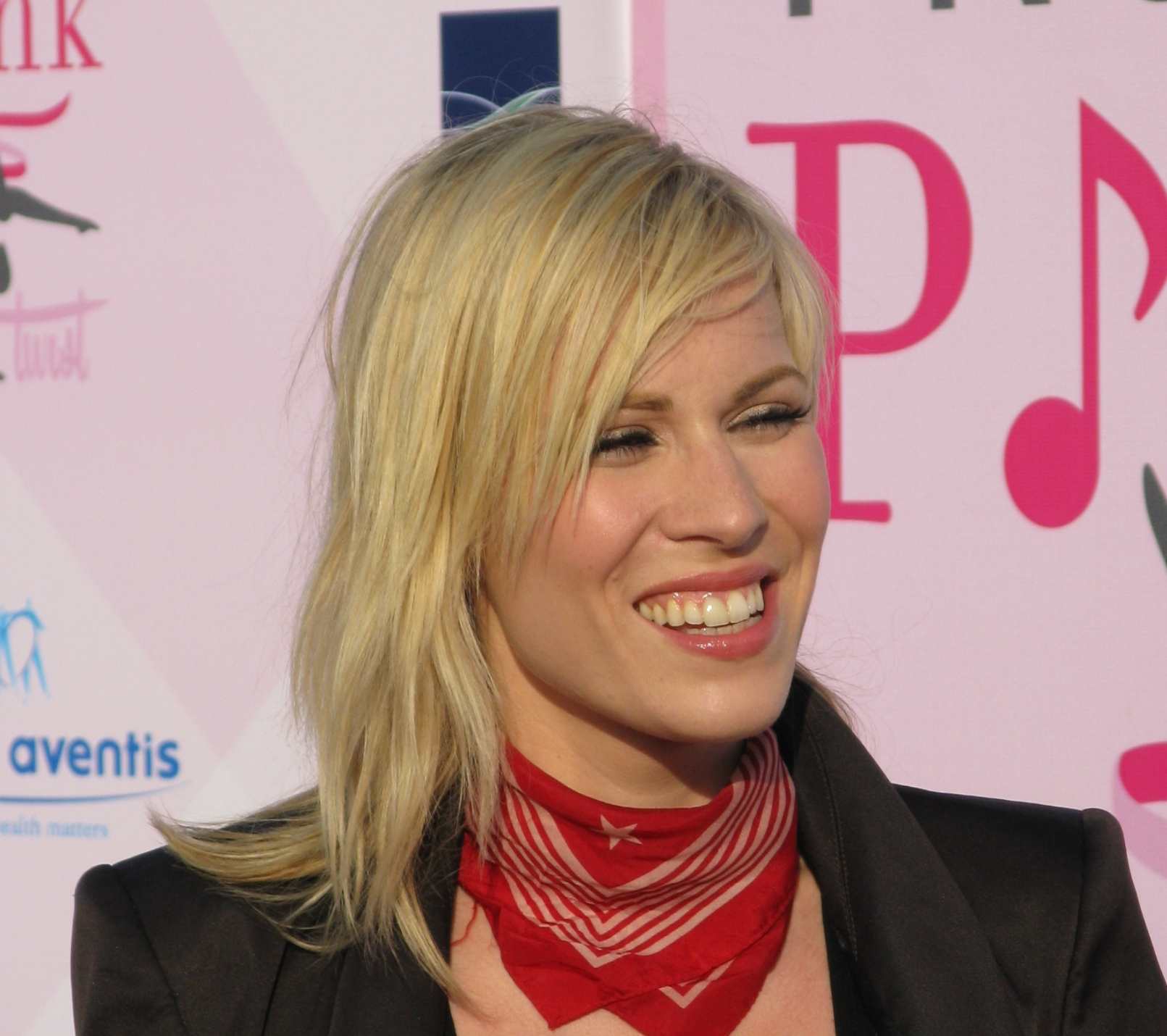 Natasha Bedingfield, appearing at the Frosted Pink With a Twist women's cancer charity event in San Diego, California